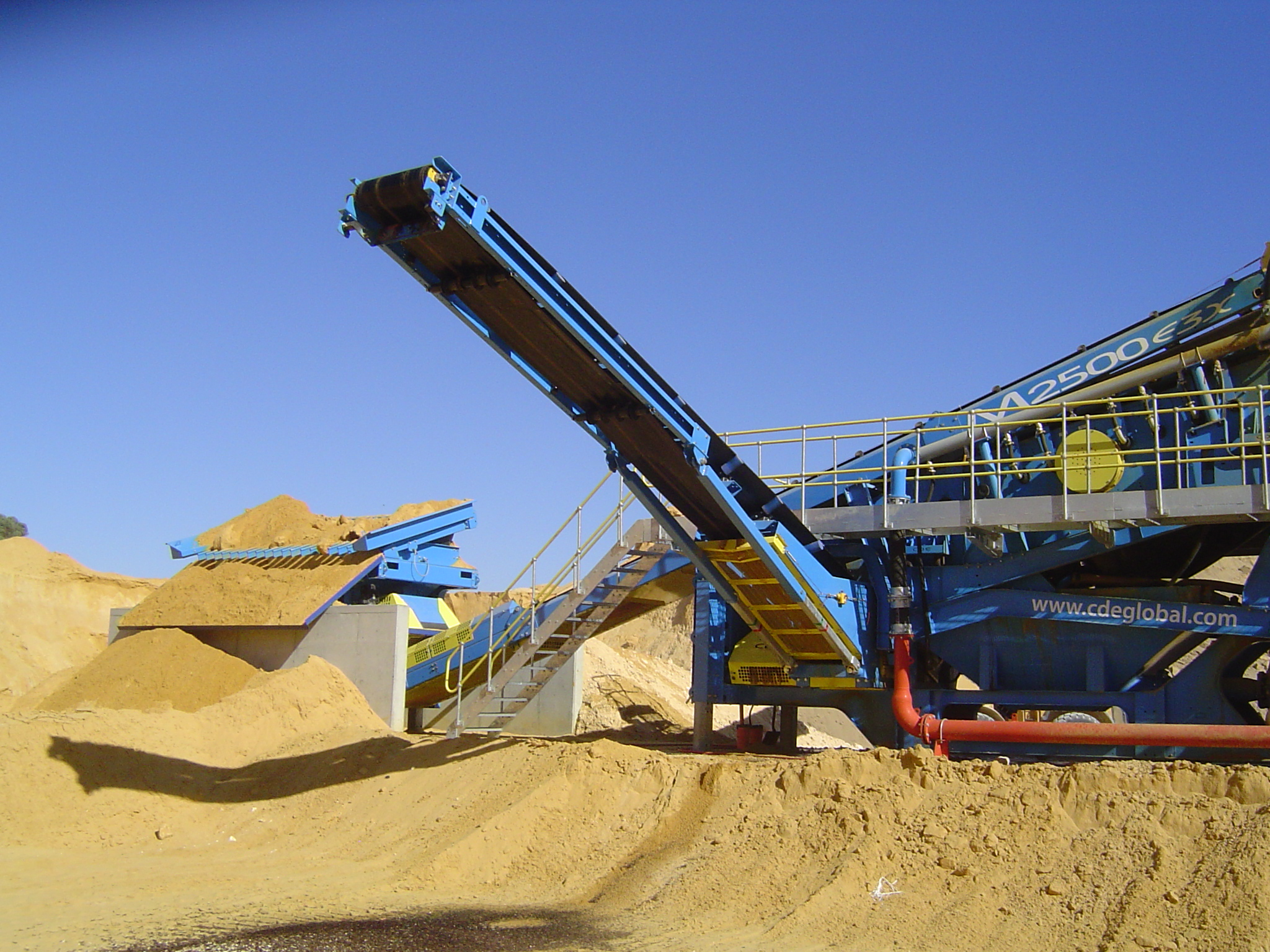 Wing conveyor and feed hopper